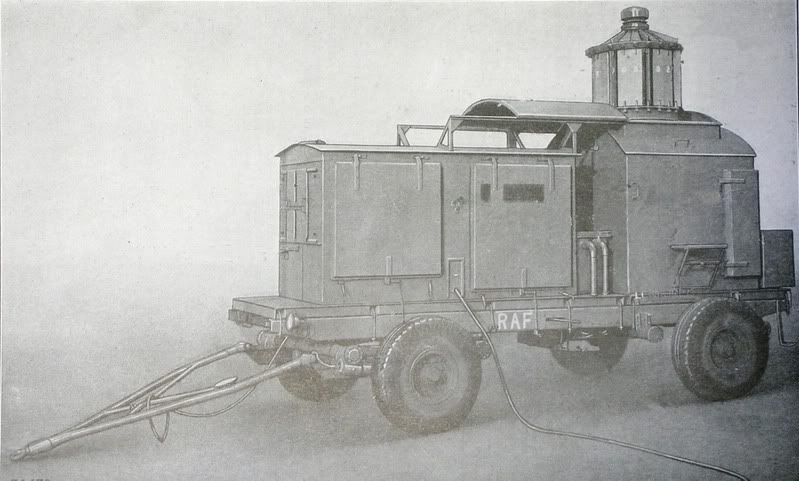 Aerial Lighthouse, navigation beacon of WWII